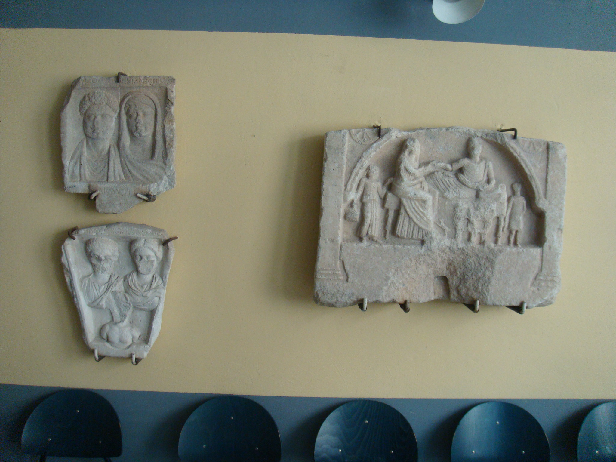 Archaeological Museum of Sandanski